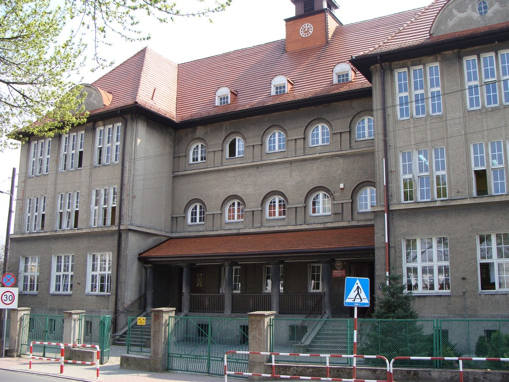 Śrem, Grammar School No. 2.